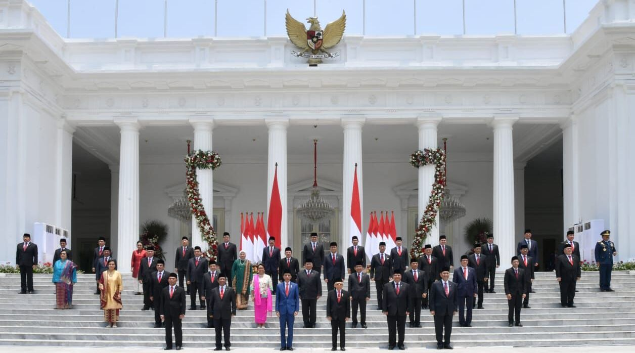 Group photo after the inauguration of the Onward Indonesian Cabinet at the Merdeka Palace on October 23, 2019.